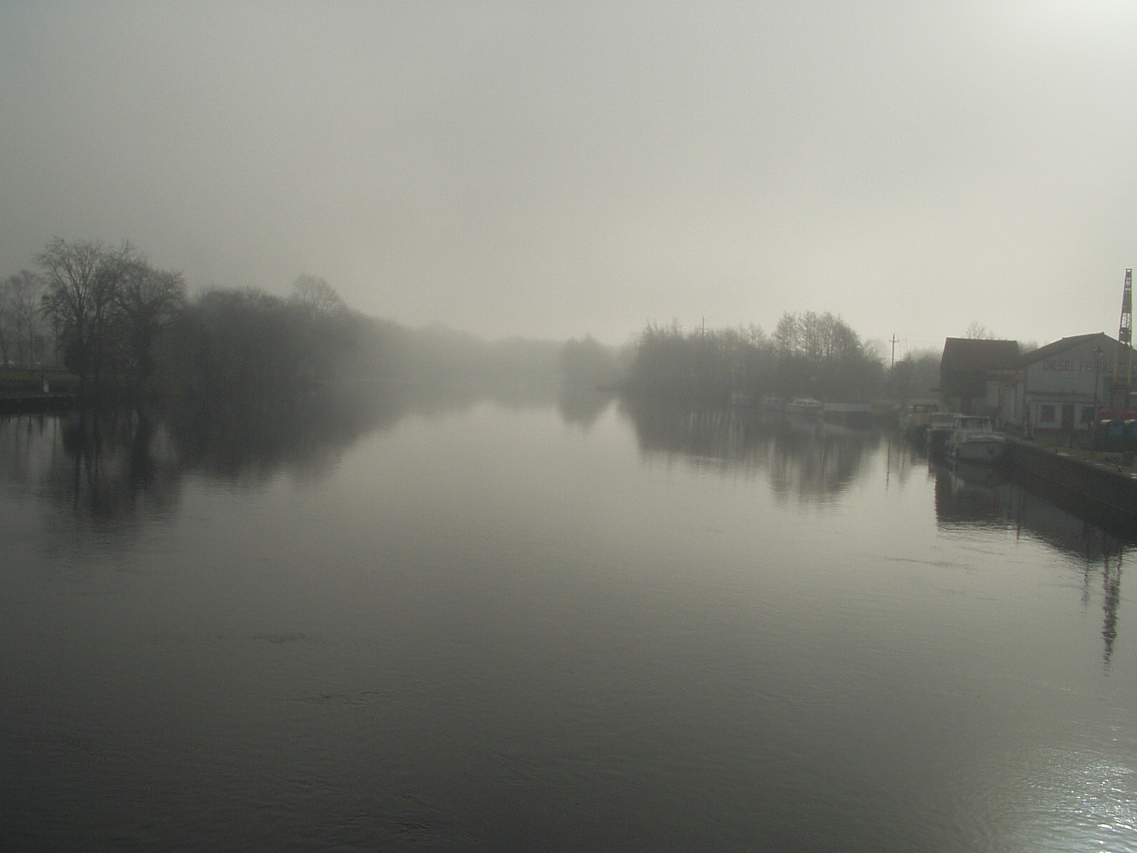 River Shannon from the bridge at Roosky